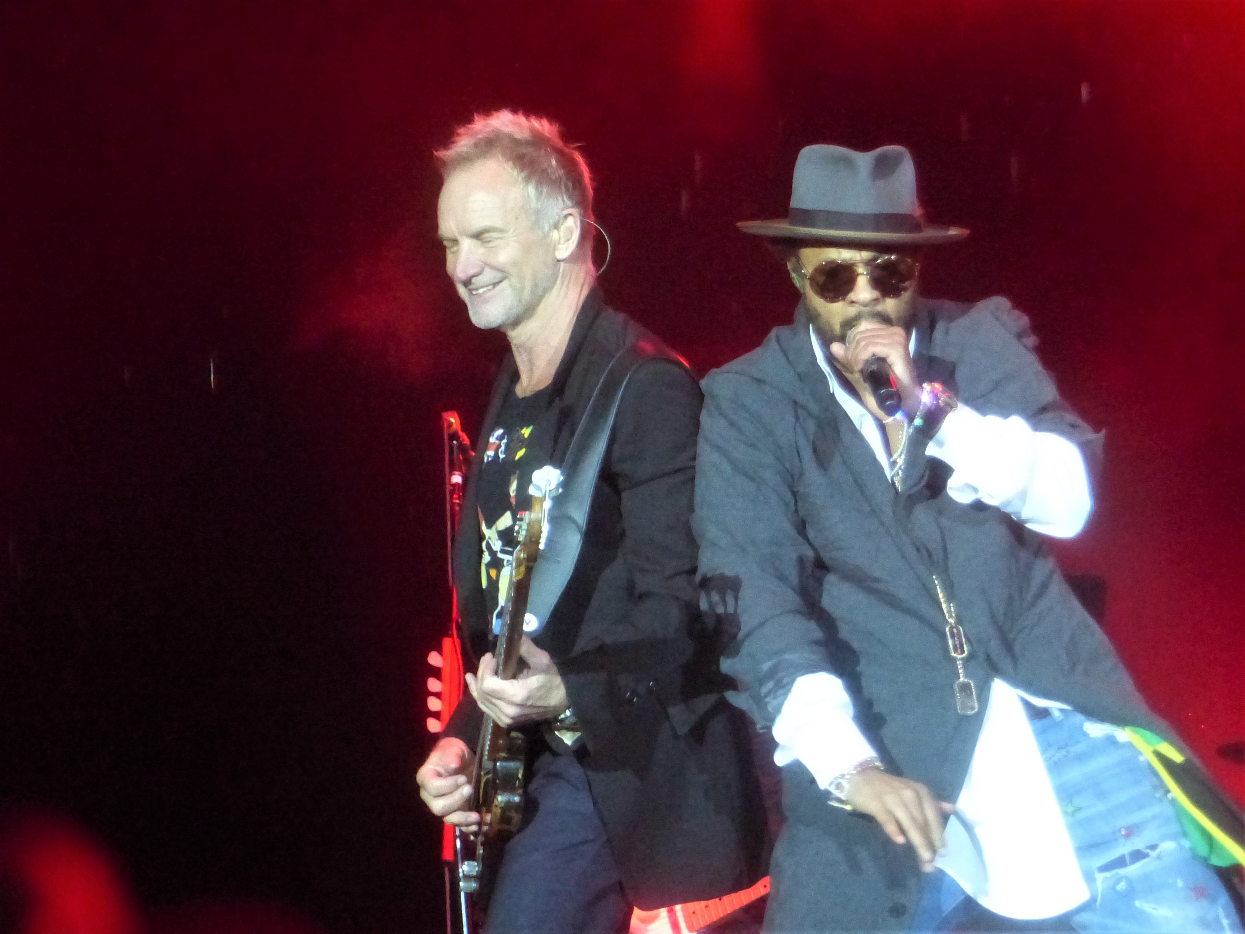 Sting and Shaggy on tour. January 2018 saw the release of "Don't Make Me Wait", the first single from a collaboration album of Sting and Shaggy. The album, titled 44/876, was released on April 20, 2018. Taken on the 24th of November, 2018. Hősök tere, Budapest, Central Europe. Sourceː